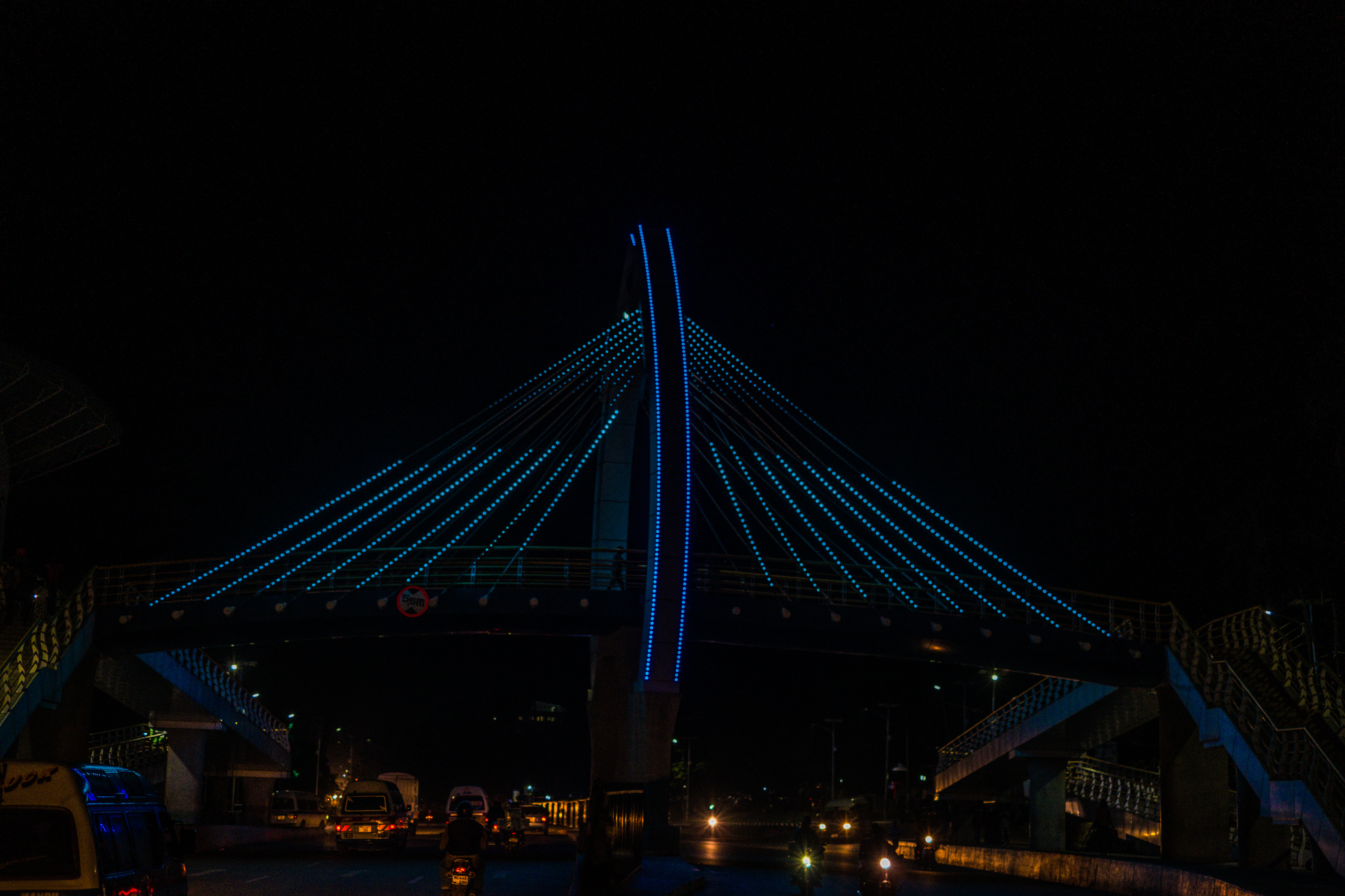 Infrastucture is key in any economic growing region or country. The bridge of Furahisha in Mwanza represents transportation and safety of its people. This has a created safe space for the citizens and it stand as a remarkable symbol of Mwanza. This is an image with the theme "Africa on the Move or Transport" from: Tanzania